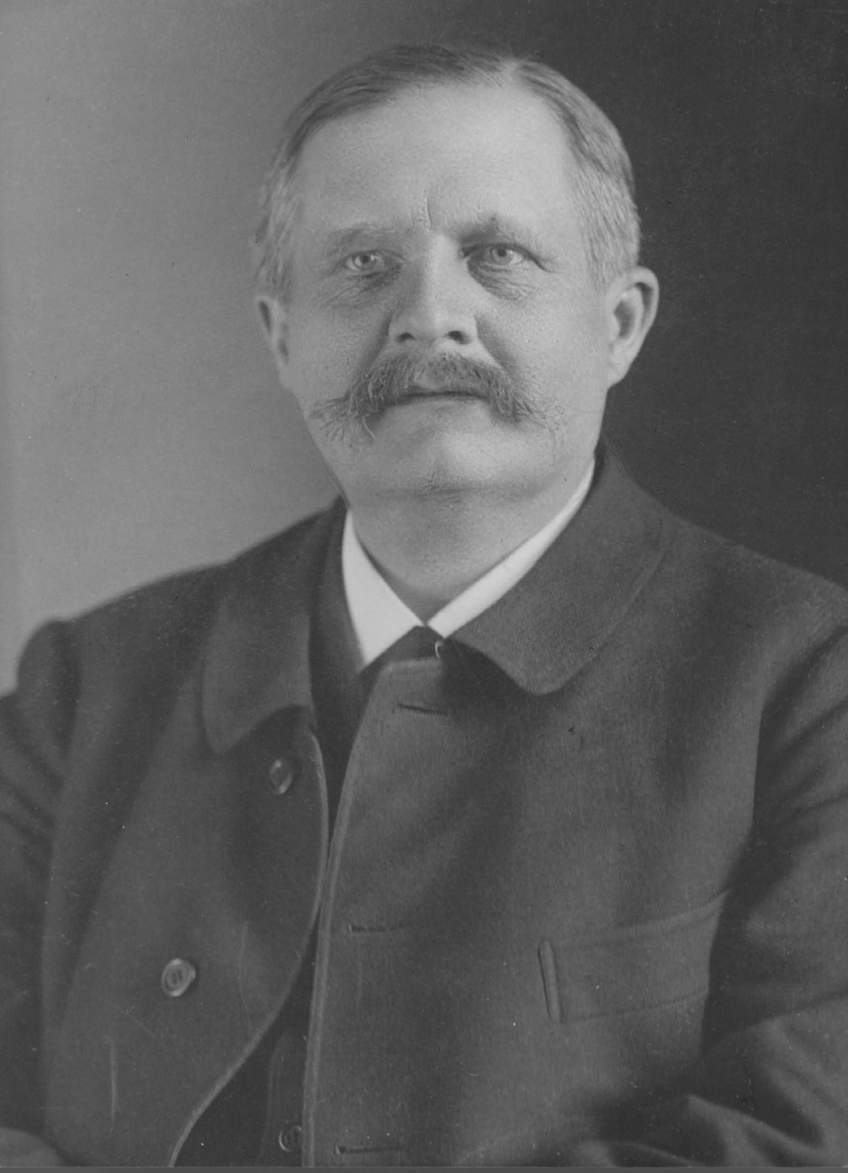 Portrait of Friedrich Naumann, about 1911.